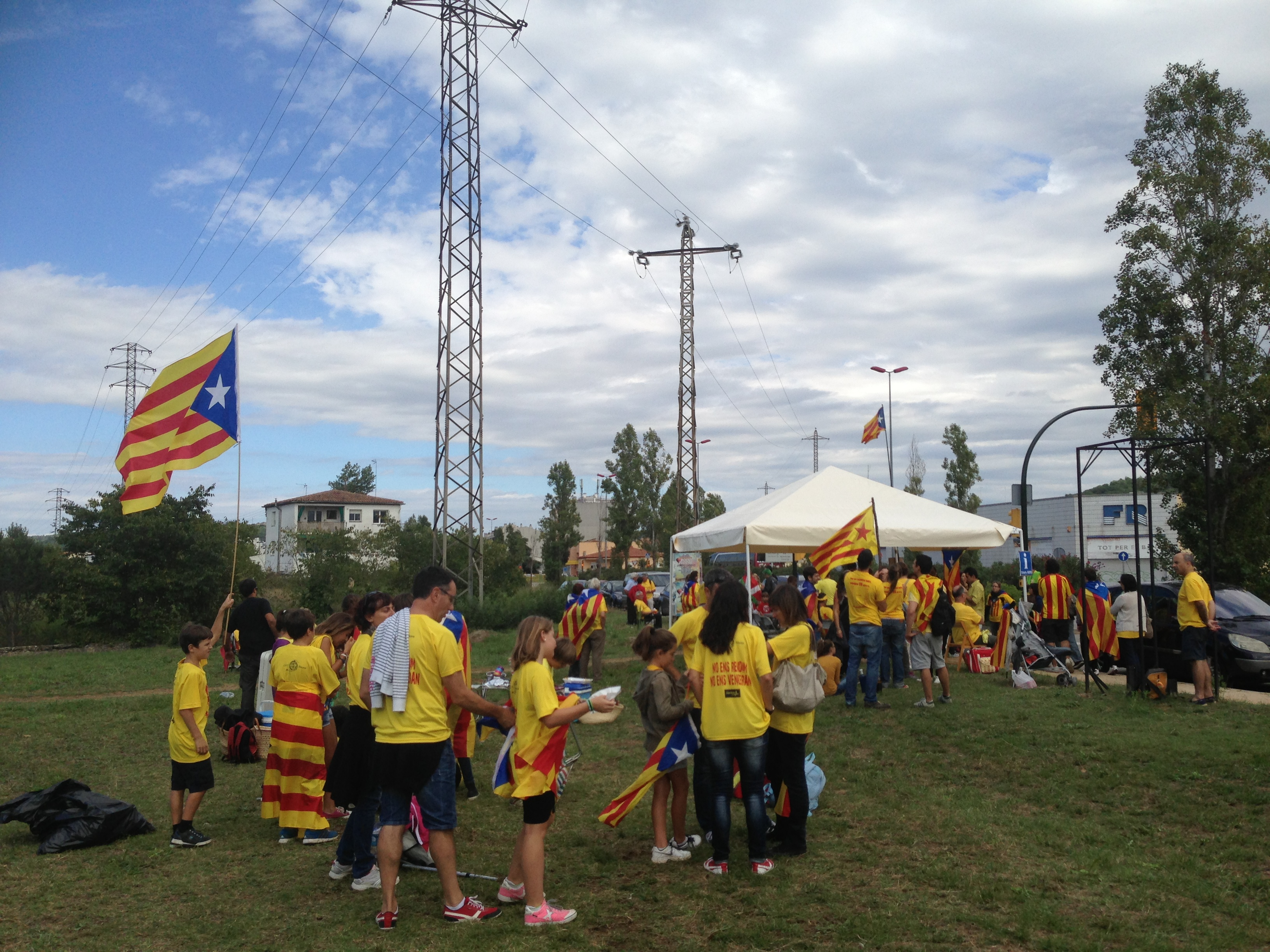 Meeting point # 609 of protesters of the Catalan Way, Sarrià de Ter, 11 September 2013